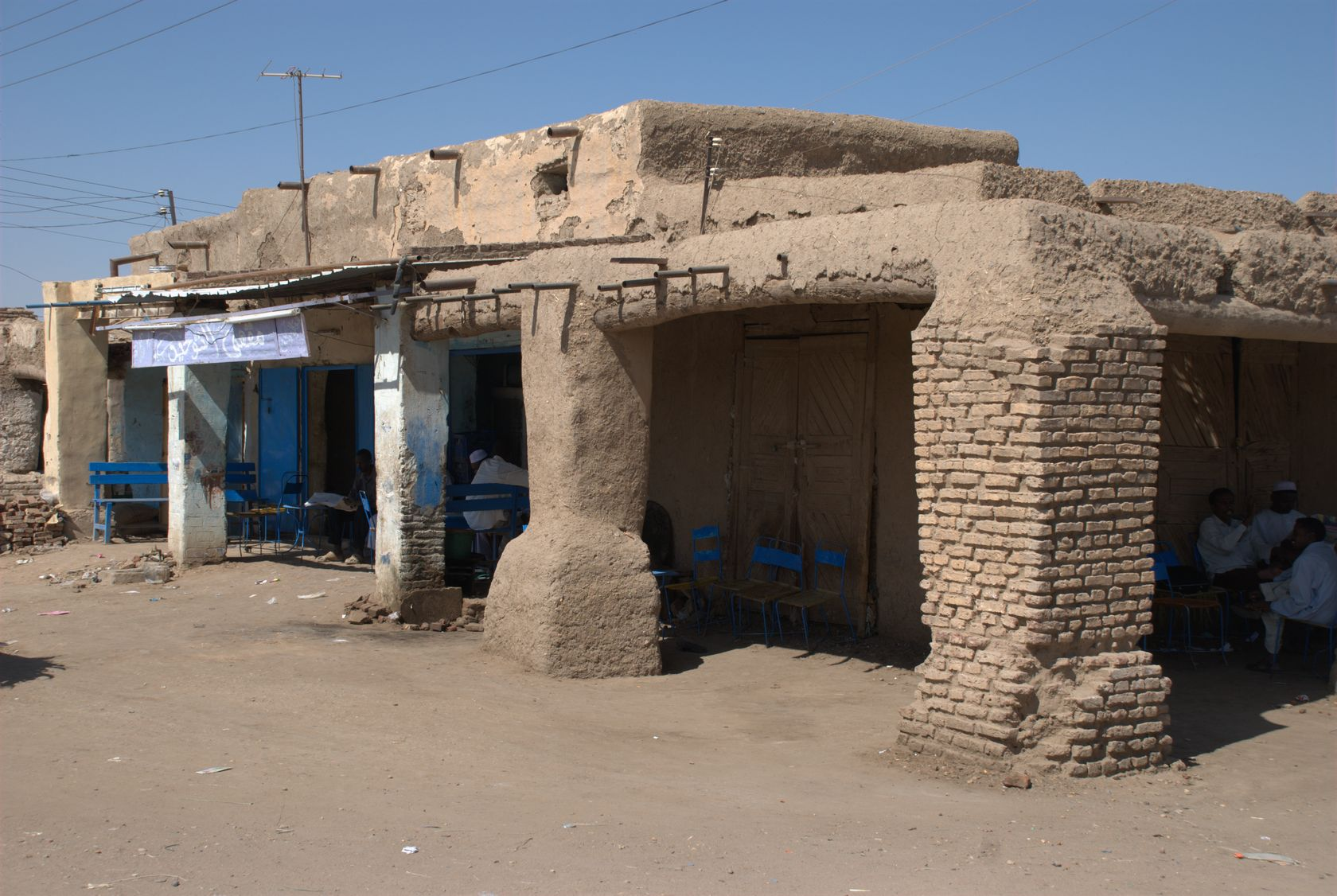 Center of Ad-Damir, Sudan